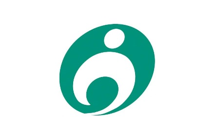 Flag of Usa Oita